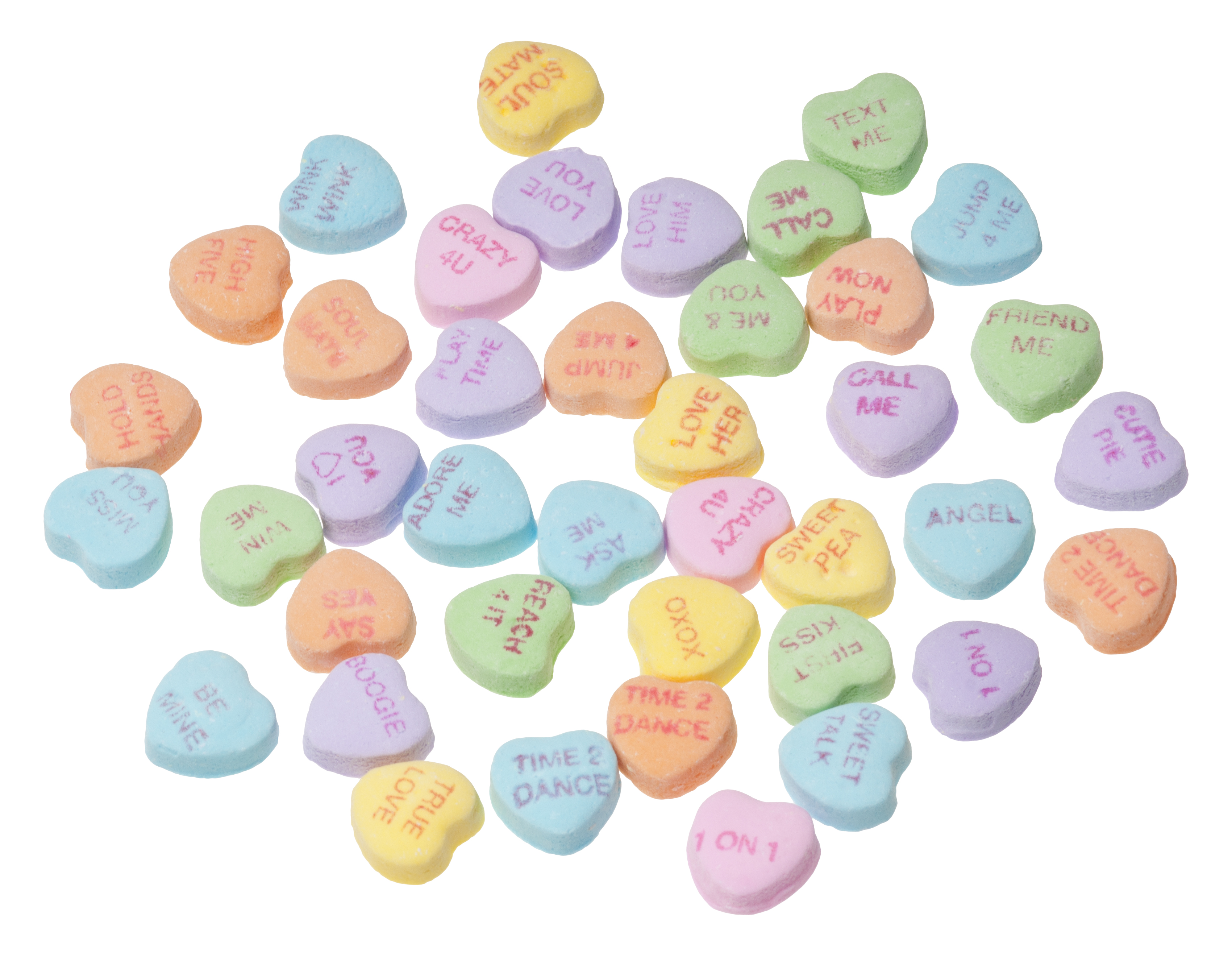 An array of Necco Sweethearts (conversation hearts). Little, chalky pieces of candy with phrases written on them; available around Valentine's Day.